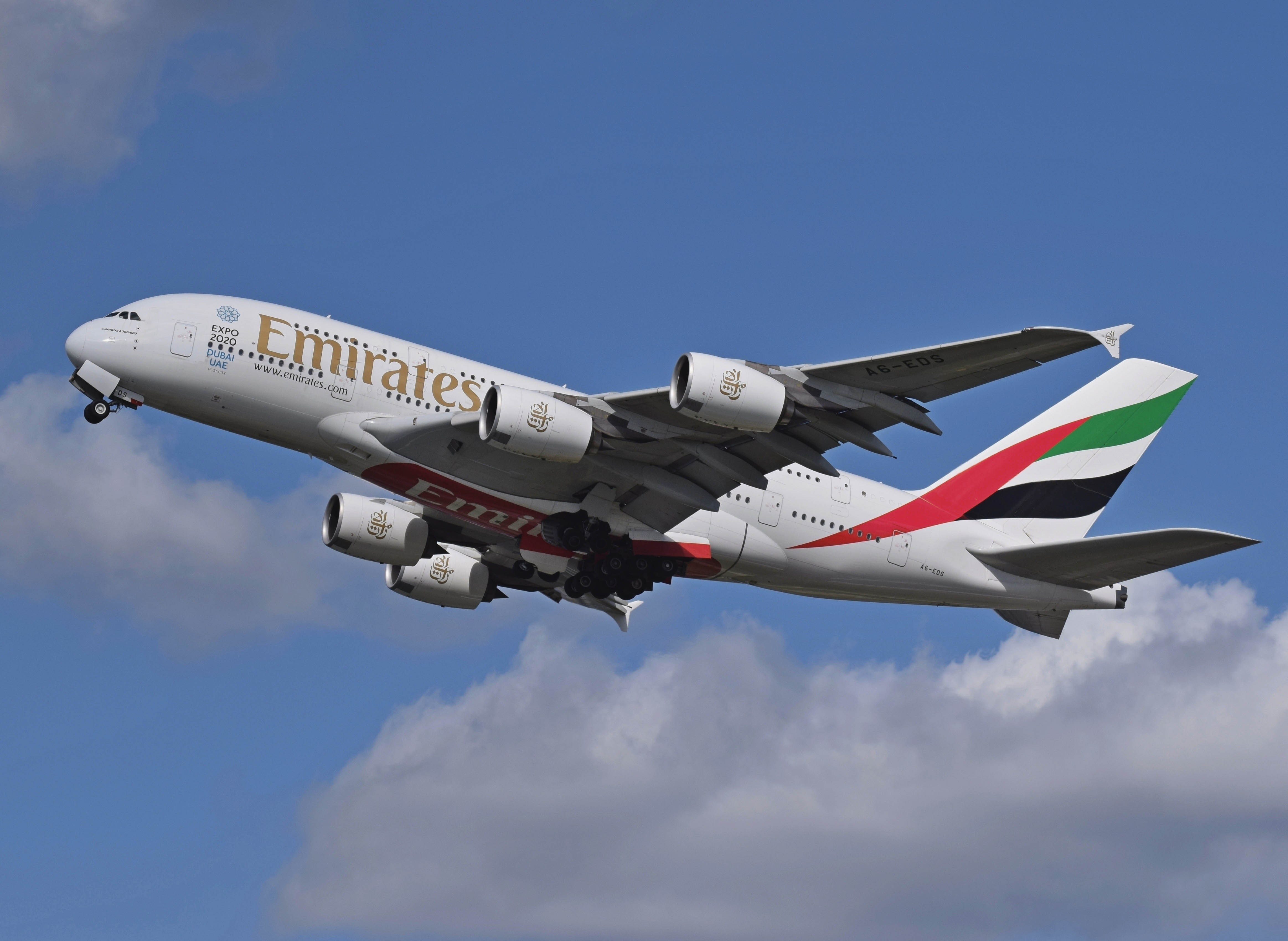 Emirates Airbus A380-800 departs London Heathrow Airport, England. The wheels are still retracting.